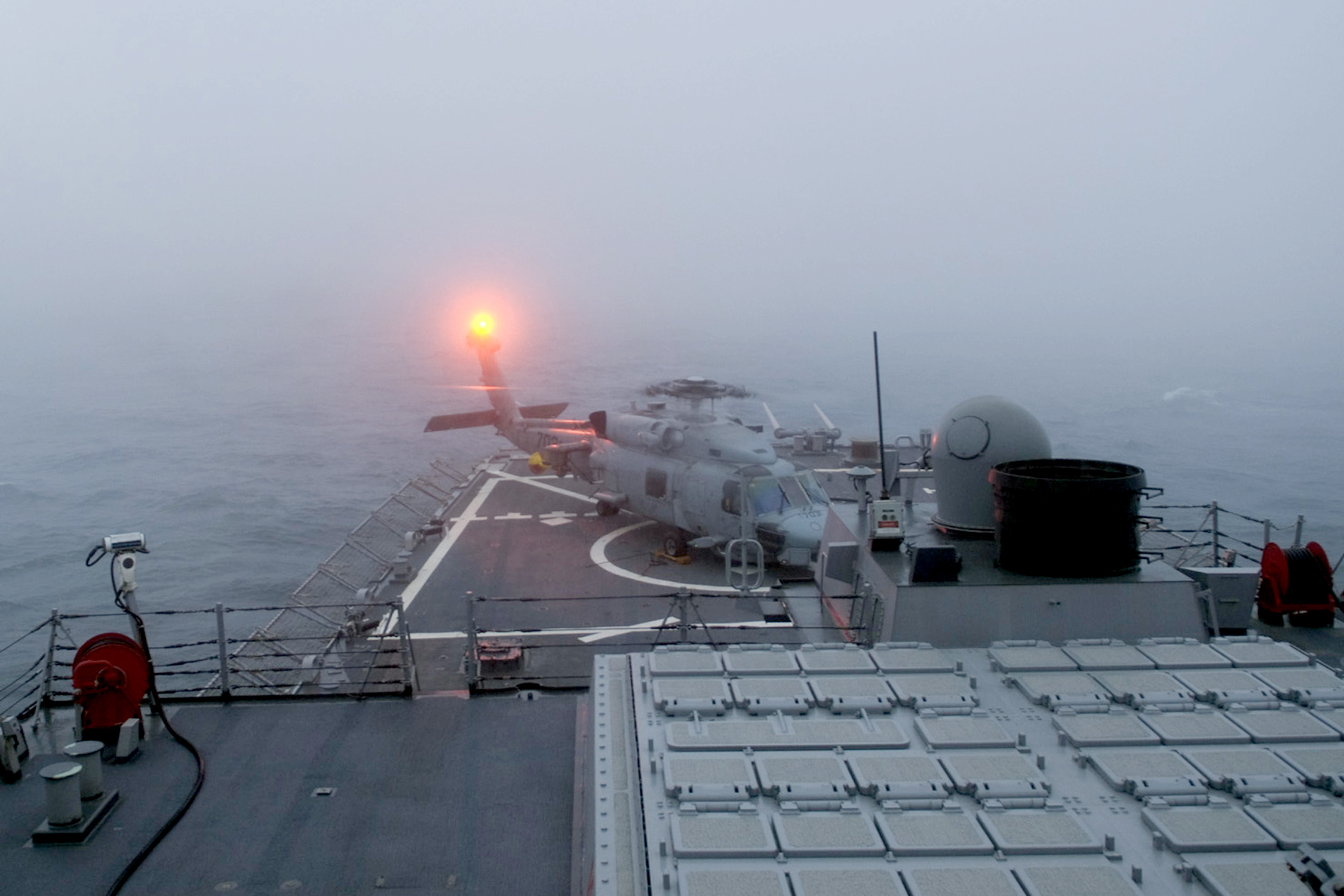 PACIFIC OCEAN (March 17, 2009) An SH-60B helicopter stands by on the flight deck of the guided-missile destroyer USS John S. McCain (DDG 56) after making an emergency landing due to poor visibility. McCain is one of seven Arleigh Burke-class destroyers assigned to Destroyer Squadron (DESRON) 15 and is permanently forward deployed to Yokosuka, Japan. (U.S. Navy photo by Mass Communication Specialist 2nd Class Byron C. Linder/Released)